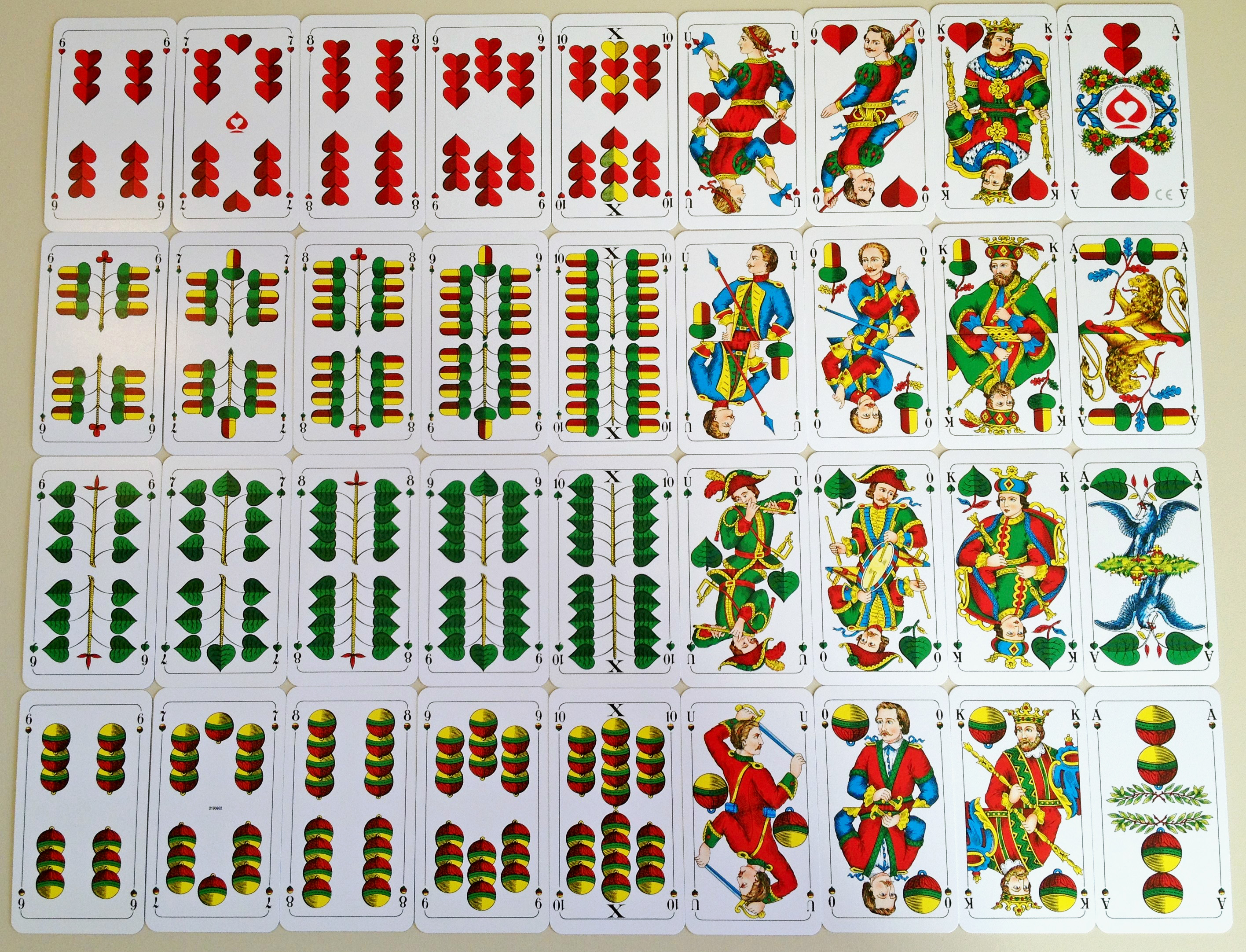 The Franconian pattern is a 19th century offshoot of the Old Bavarian pattern. Its use is largely confined to Lower Franconia. Photo taken by me.